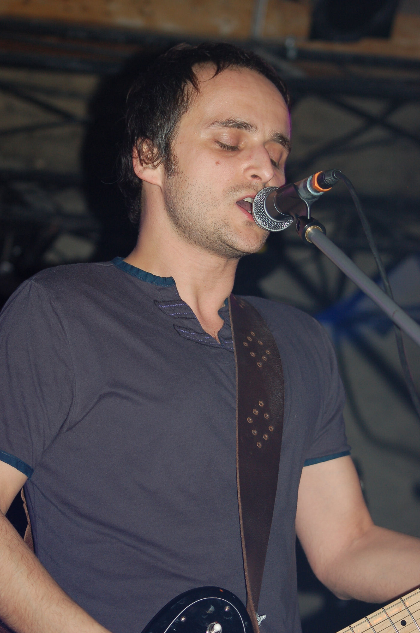 Artur Rojek. Myslovitz band in Mega Club (Katowice, Poland).